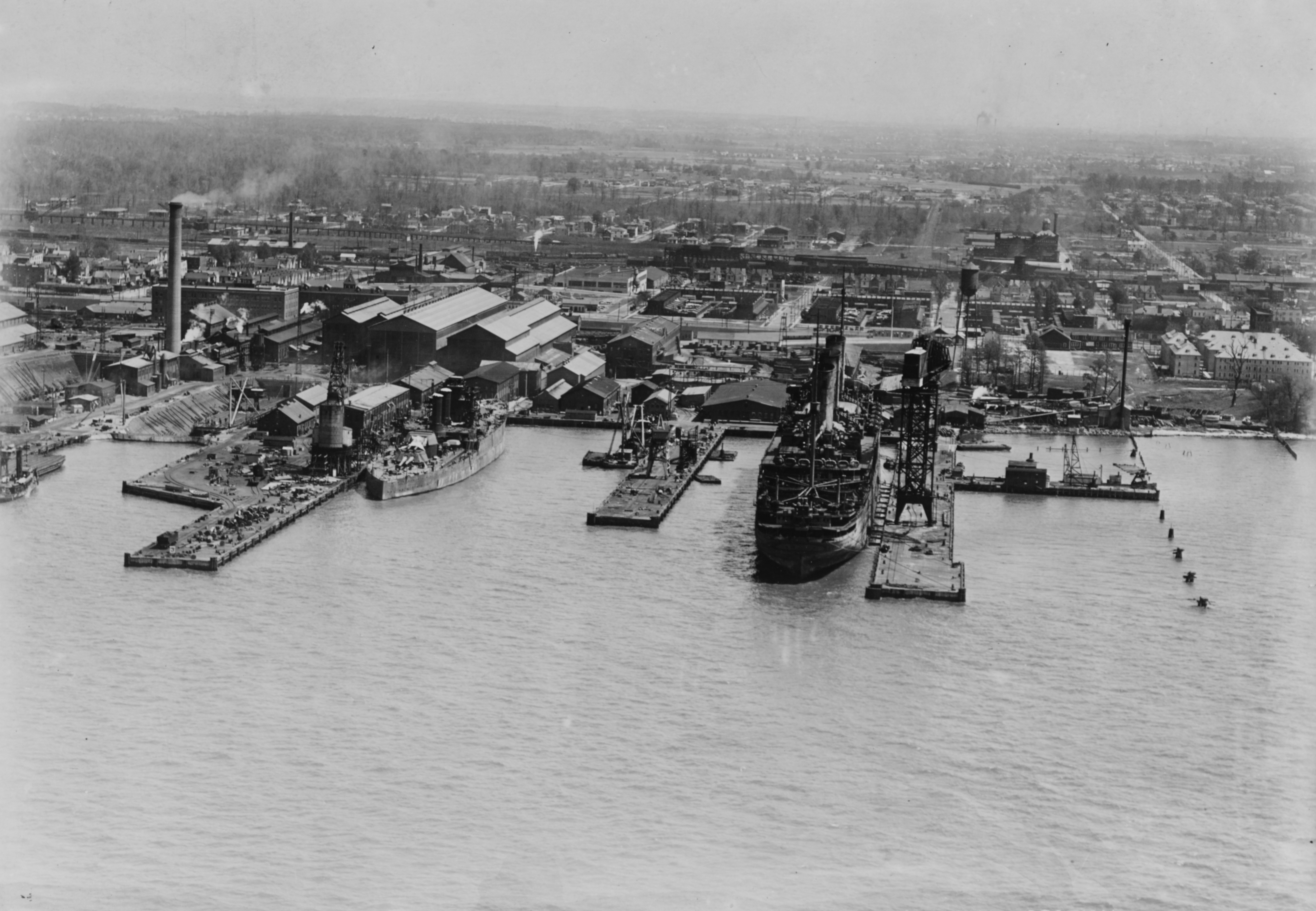 Newport News Shipbuilding and Dry Dock Company shipyard, Newport News, Virginia (USA): Aerial photograph of the yard's pier area, February 1923. The U.S. Navy battleship USS West Virginia (BB-48) is fitting out in the left center. In right center is the USS Leviathan (SP-1326), refitting for commercial service.